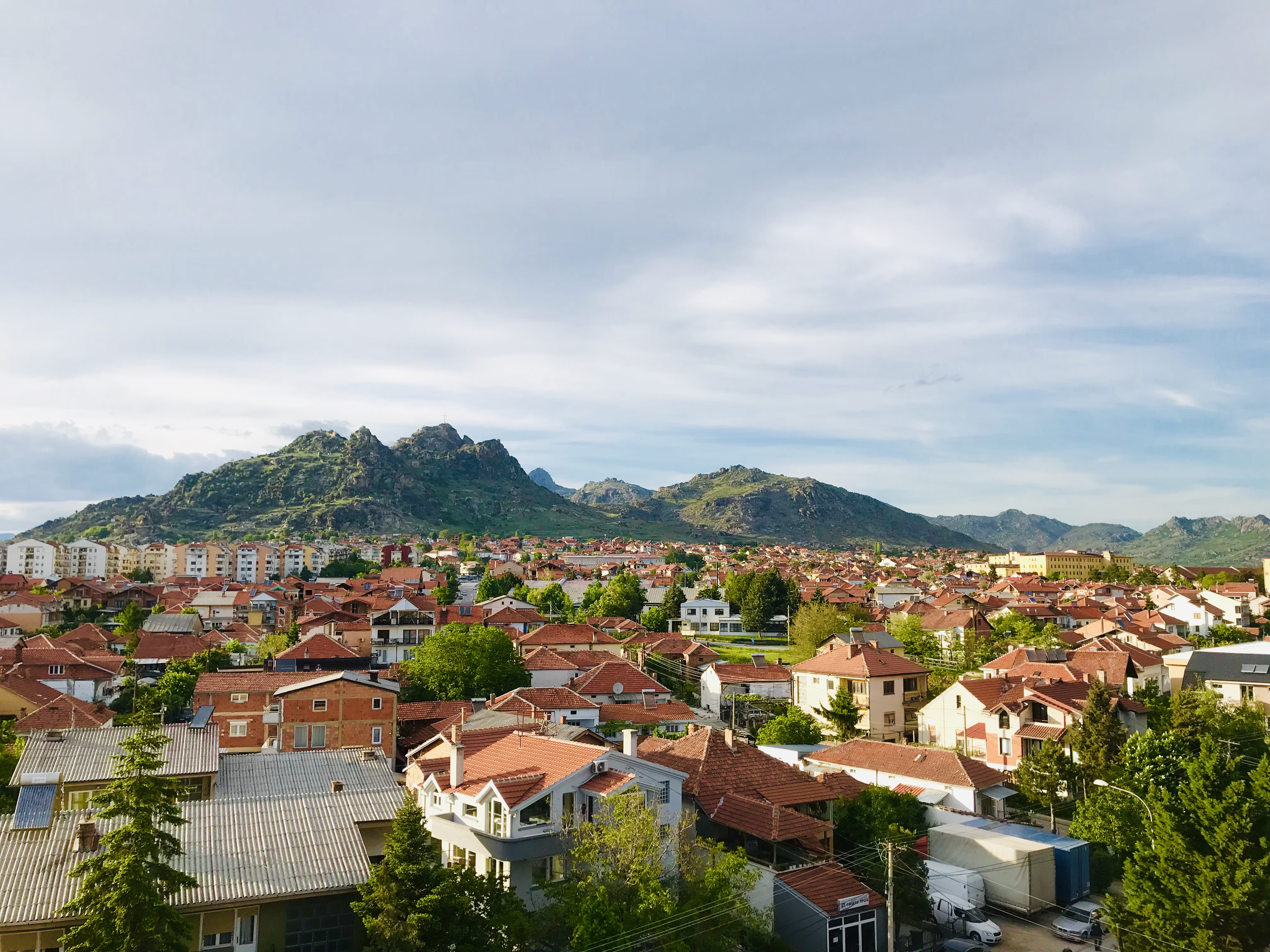 A panorama of the City of Prilep from the Hotel Kristal Palas, 2019